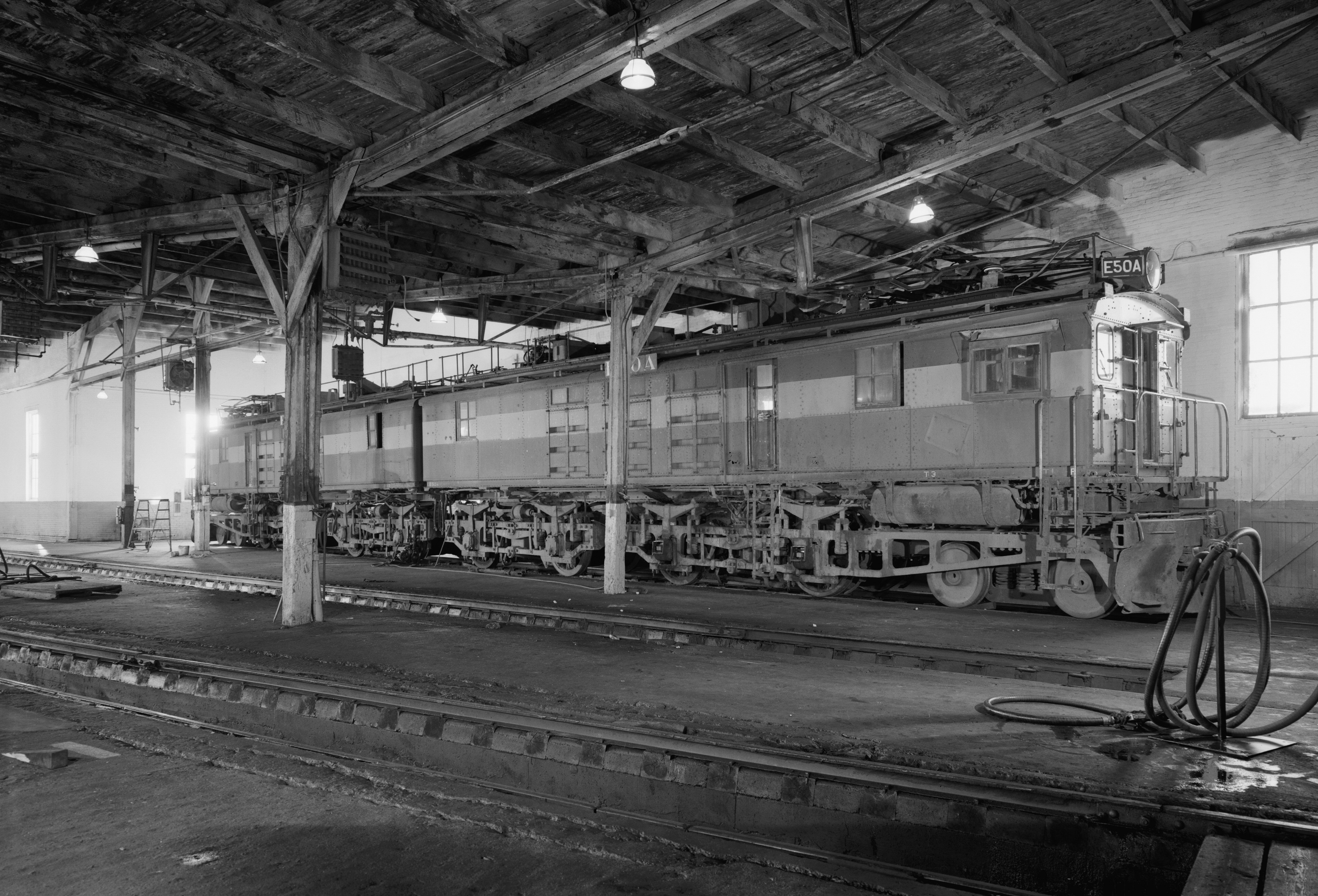 Milwaukee Road 2-unit boxcab electric locomotive #E50, class EF-1.